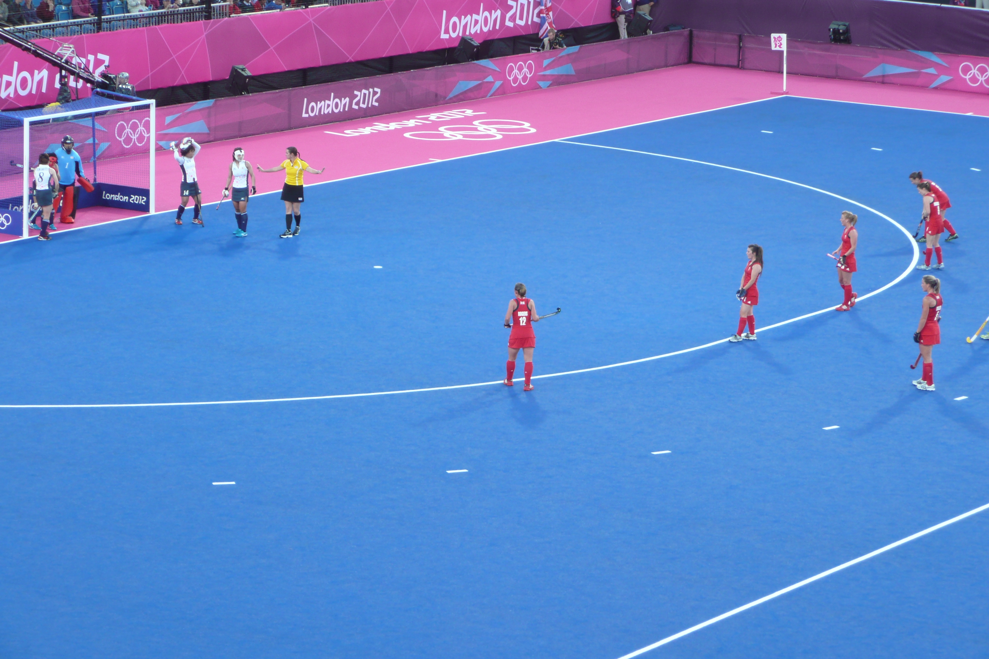 The London Olympics Riverside Arena on Sunday 29 July 2012, the match: GB (in red) vs Japan (white and blue)